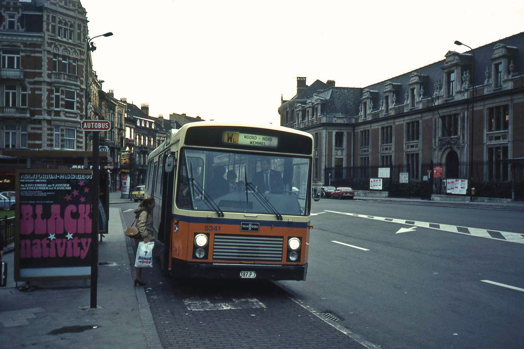 SNCV replacement bus off Van-Hool for the ex-tramline "W" in Brussels. (The tramline was stopped in 1978). Typical SNCV busstop sign at the time.